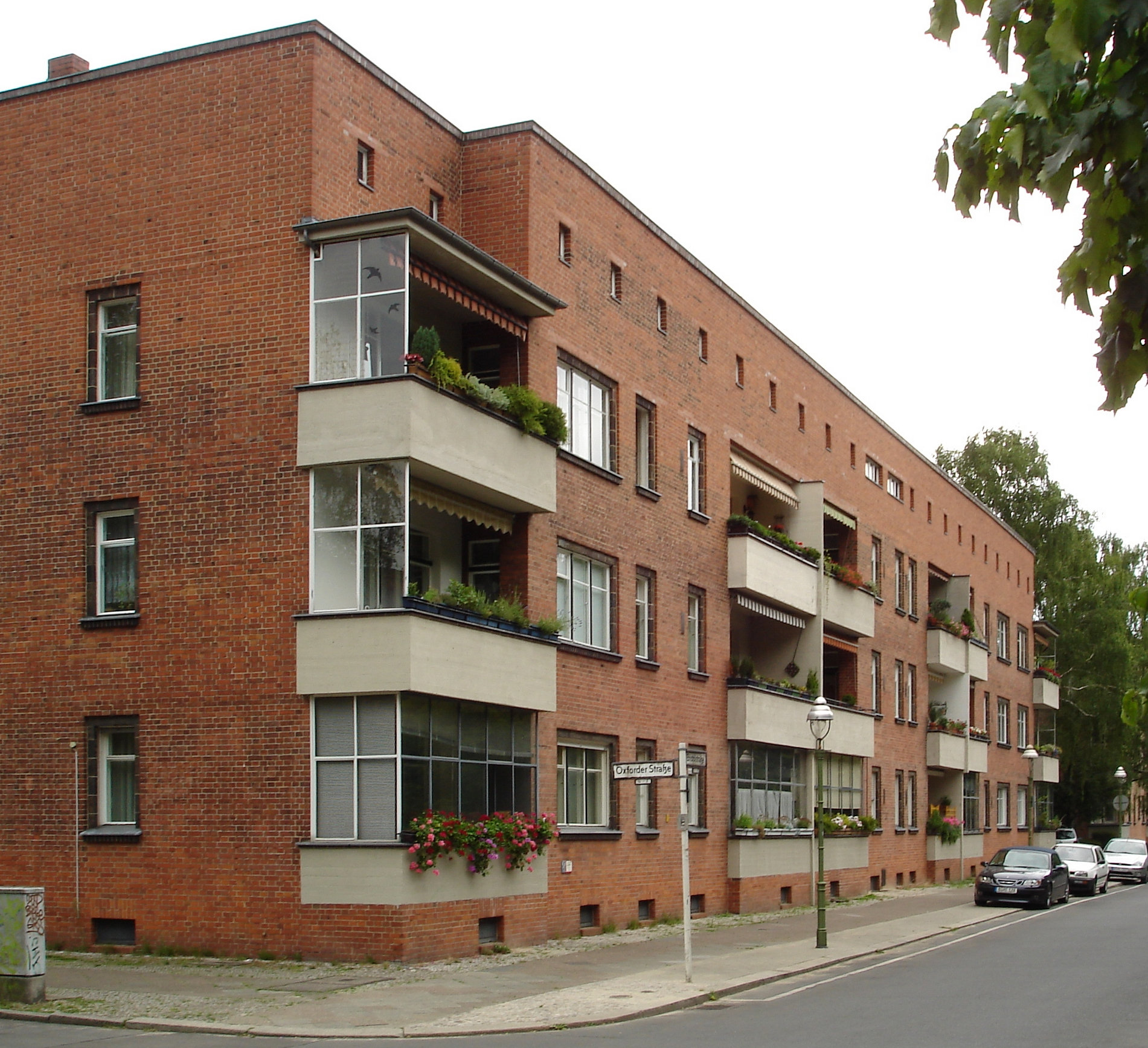 Schillerpark Housing Estate in Berlin-Wedding; view of the buildings Bristolstraße 13, 15 and 17 from Bristolstraße